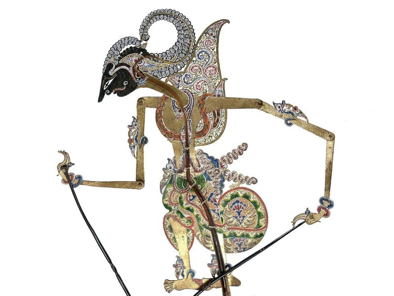 Wayang figure